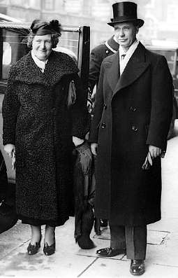 Swedish Minister of Foreign Affairs Rickard Sandler on his way to meet King Georg VI in London 1937. His wife Maja Sandler to the left.